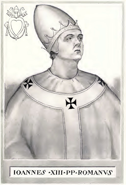 This illustration is from The Lives and Times of the Popes by Chevalier Artaud de Montor, New York: The Catholic Publication Society of America, 1911. It was originally published in 1842.